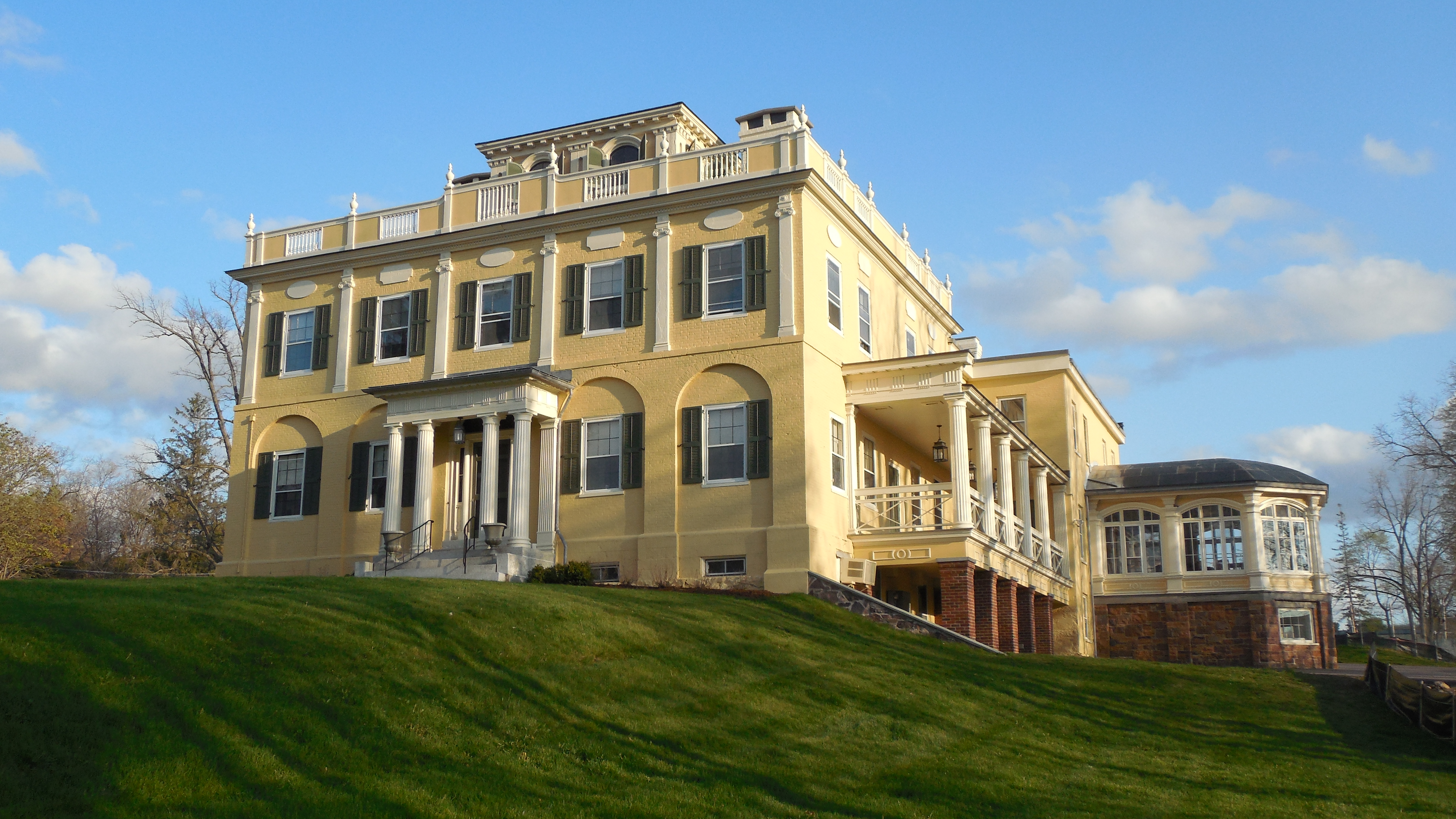 View of Grasse Mount at the University of Vermont from Main Street/US Route 2, Burlington, Vermont, US: 8 May 2016. Grasse Mount was added to National Register of Historic Places on April 11, 1973